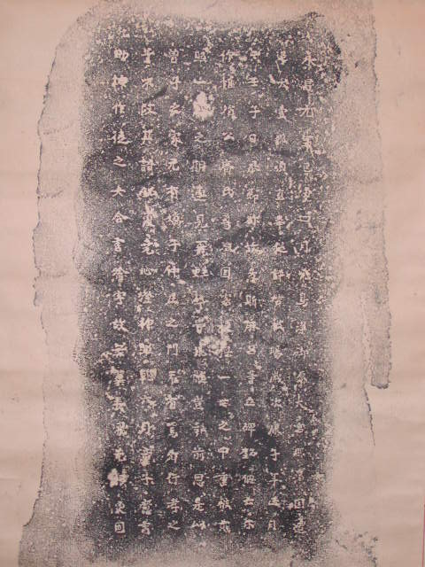 Inscription on granite stone monument in remembrance of Atai Ide, governor of Nasu. The main stone bears a calligraphic inscription (8 lines of 19 characters) which is influenced by the Northern Wei robust style and depicted here.